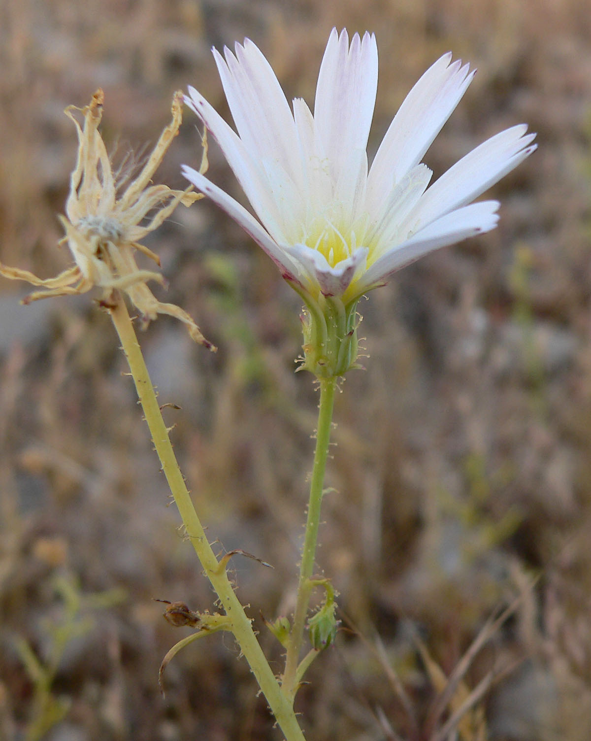 Photo of Calycoseris wrightii on hillside west of Las Vegas, Nevada, just outside Red Rock Canyon